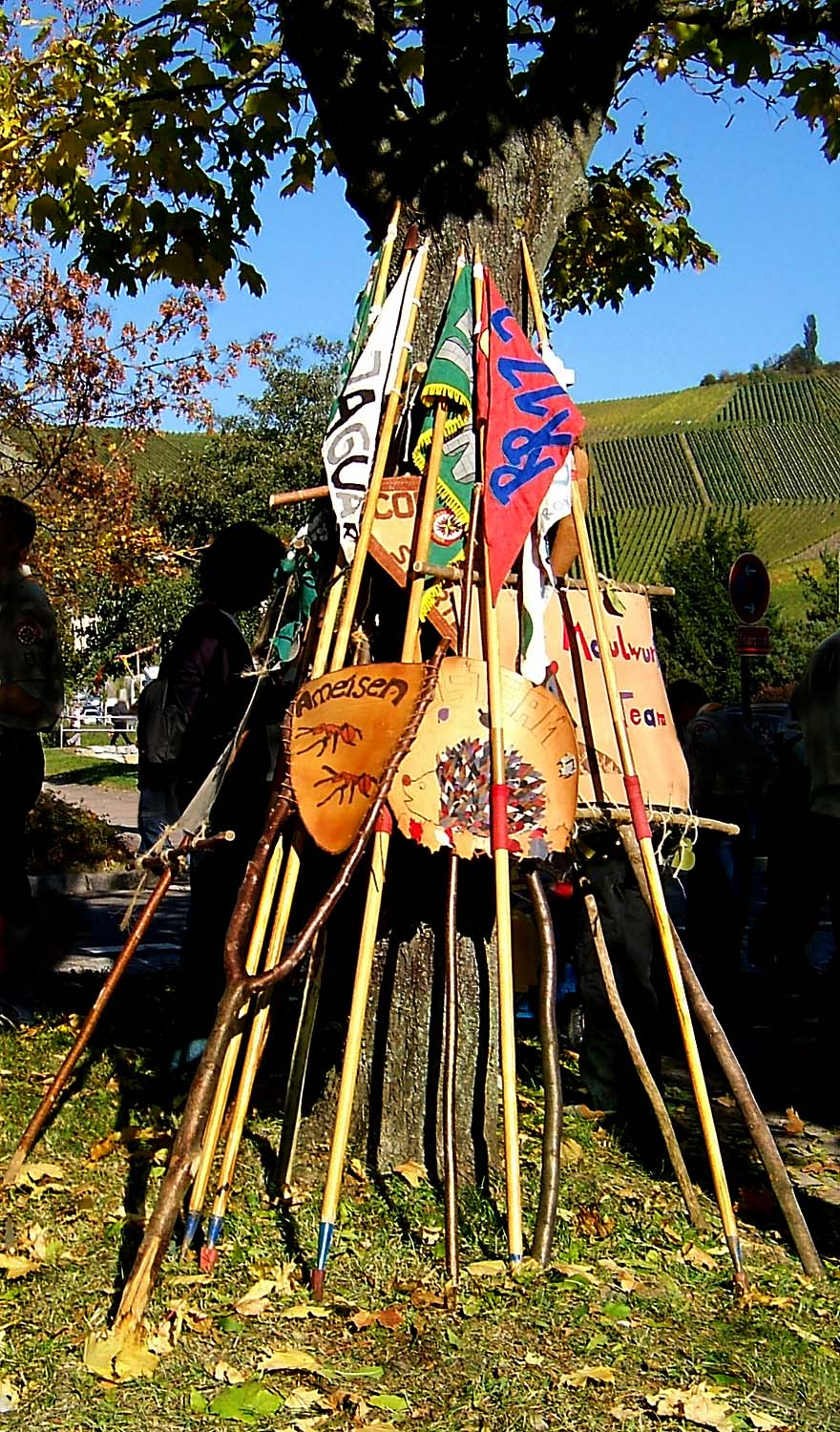 Flags and Banners of some scout teams of the German Royal Rangers